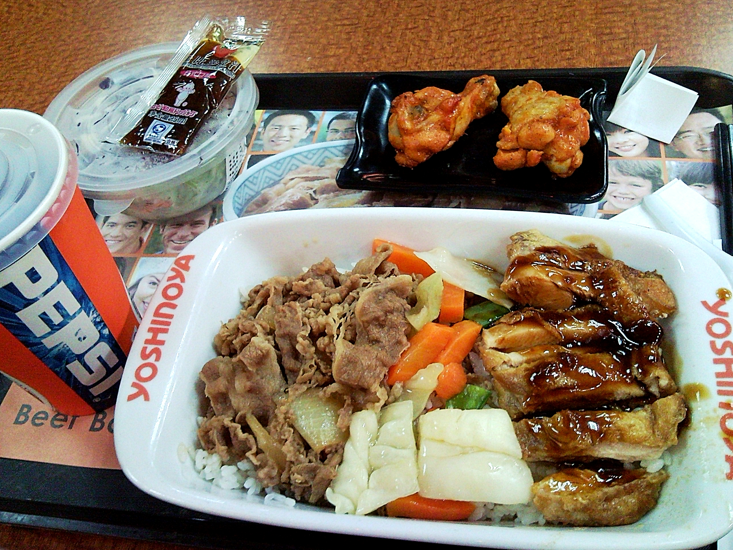 A typical Yoshinoya meal, in Shanghai, China.